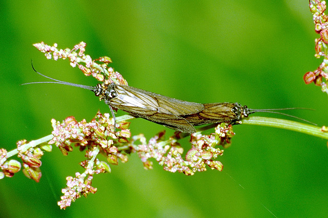 Picture taken in Commanster, Belgian High Ardennes . Species: Brachycentrus montanus couple